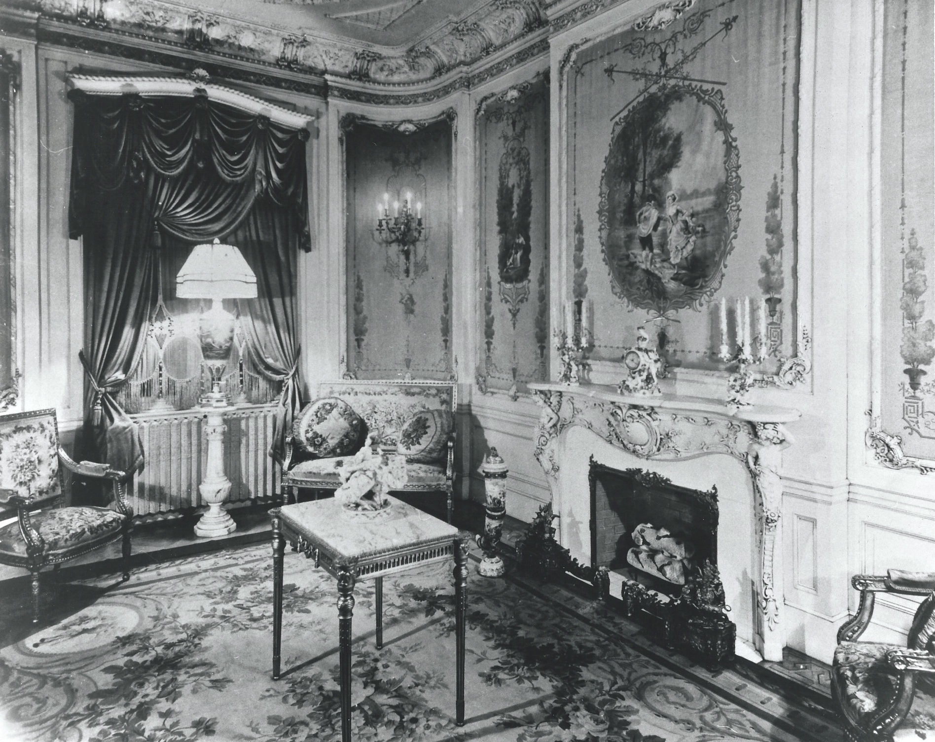 Ladies' sitting room, Chateau Dufresne, Sherbrooke Street, Montreal, QC, about 1930; About 1975, 20th century; Silver salts on paper: resin coated - Gelatin silver process; 20 x 25 cm; Gift of M. Luc d'Iberville-Moreau; MP-1978.211.2